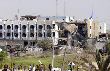 Ruins after the April 2003 Canal Hotel bombing, Baghdad